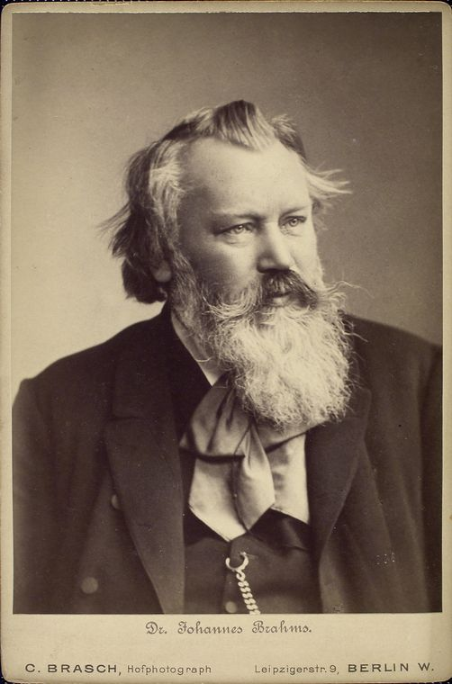 Johannes Brahms (1833–1897), German composer, 1889